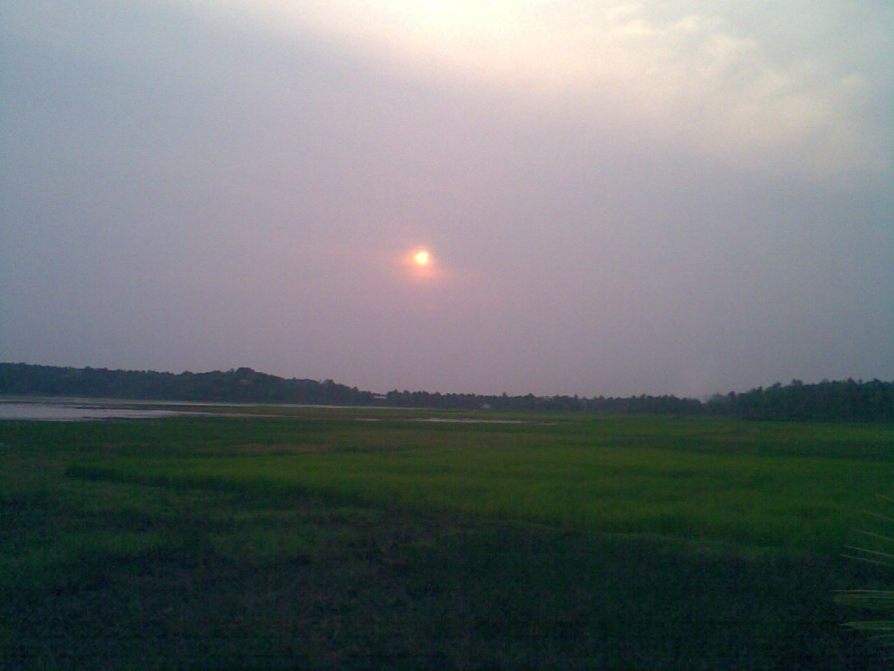 Polachira, wetland near Chathannoor in Kollam District of Kerala, India.